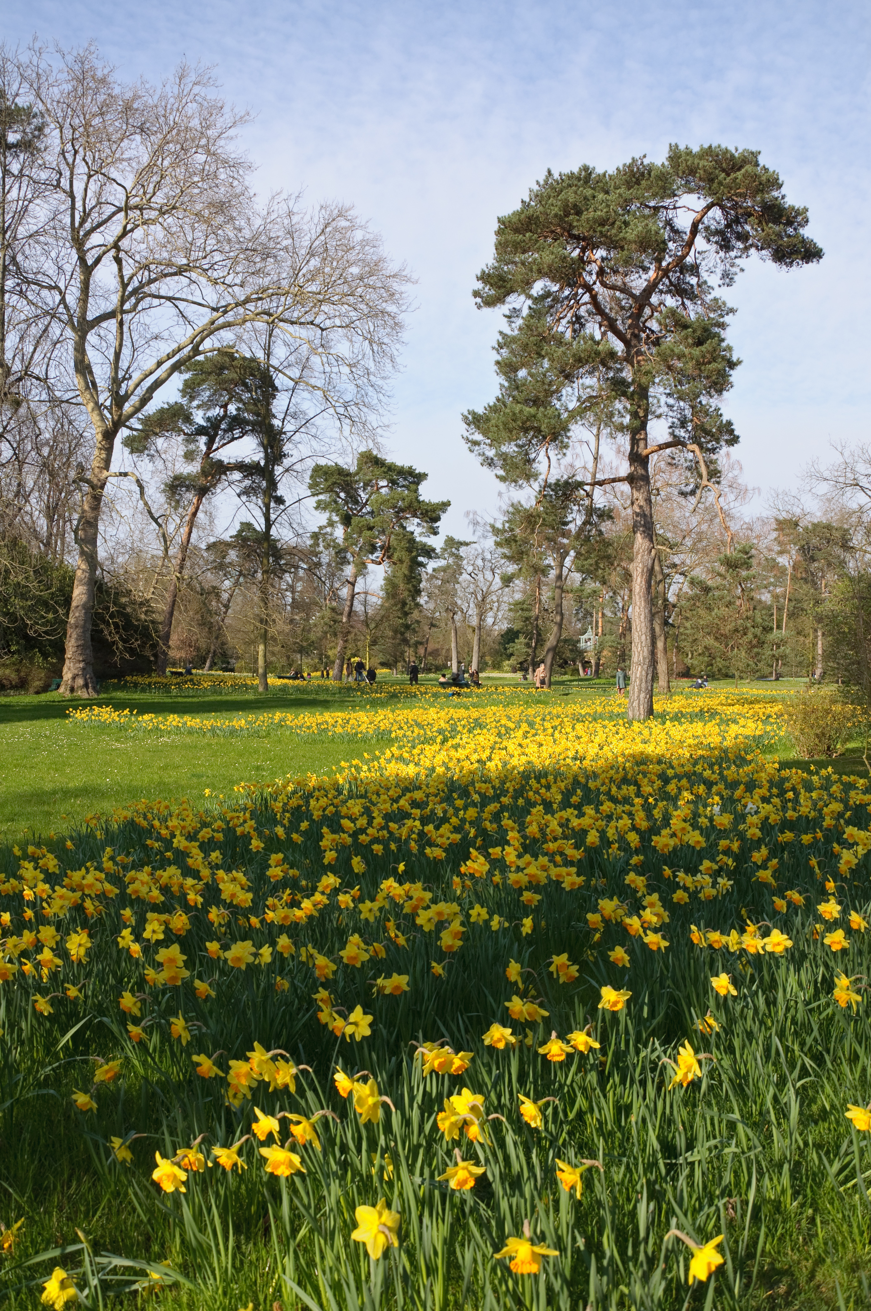 Spring day in the park of Bagatelle, Paris, France.